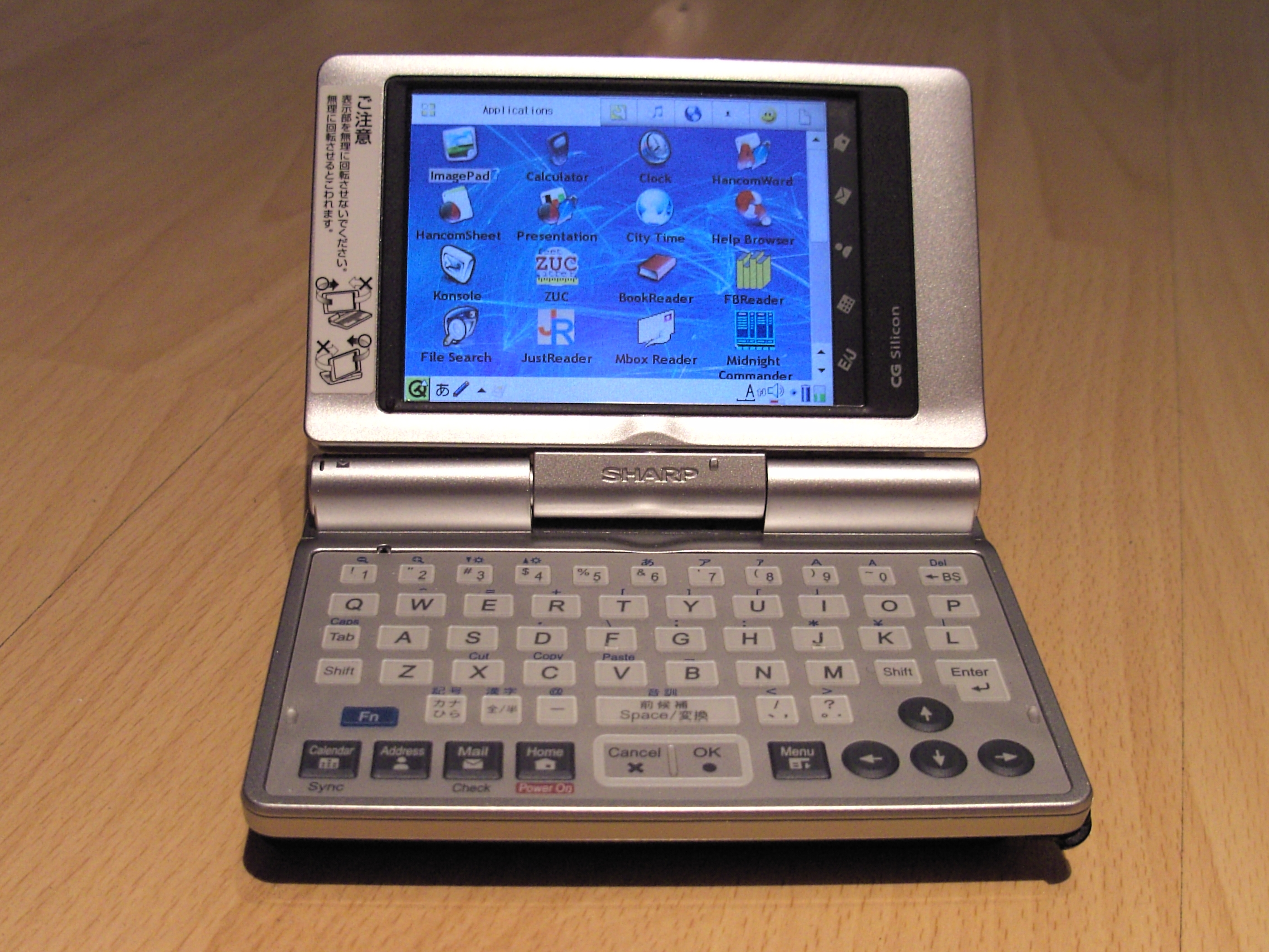 Sharp Zaurus SL-C860. Open, Model with bigger battery, purchased 2004, Japanese model with alternate operating system